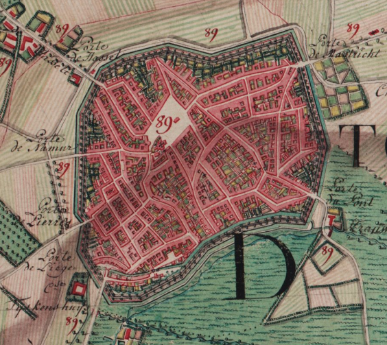 Tongeren as depicted on the 18th century Ferraris maps